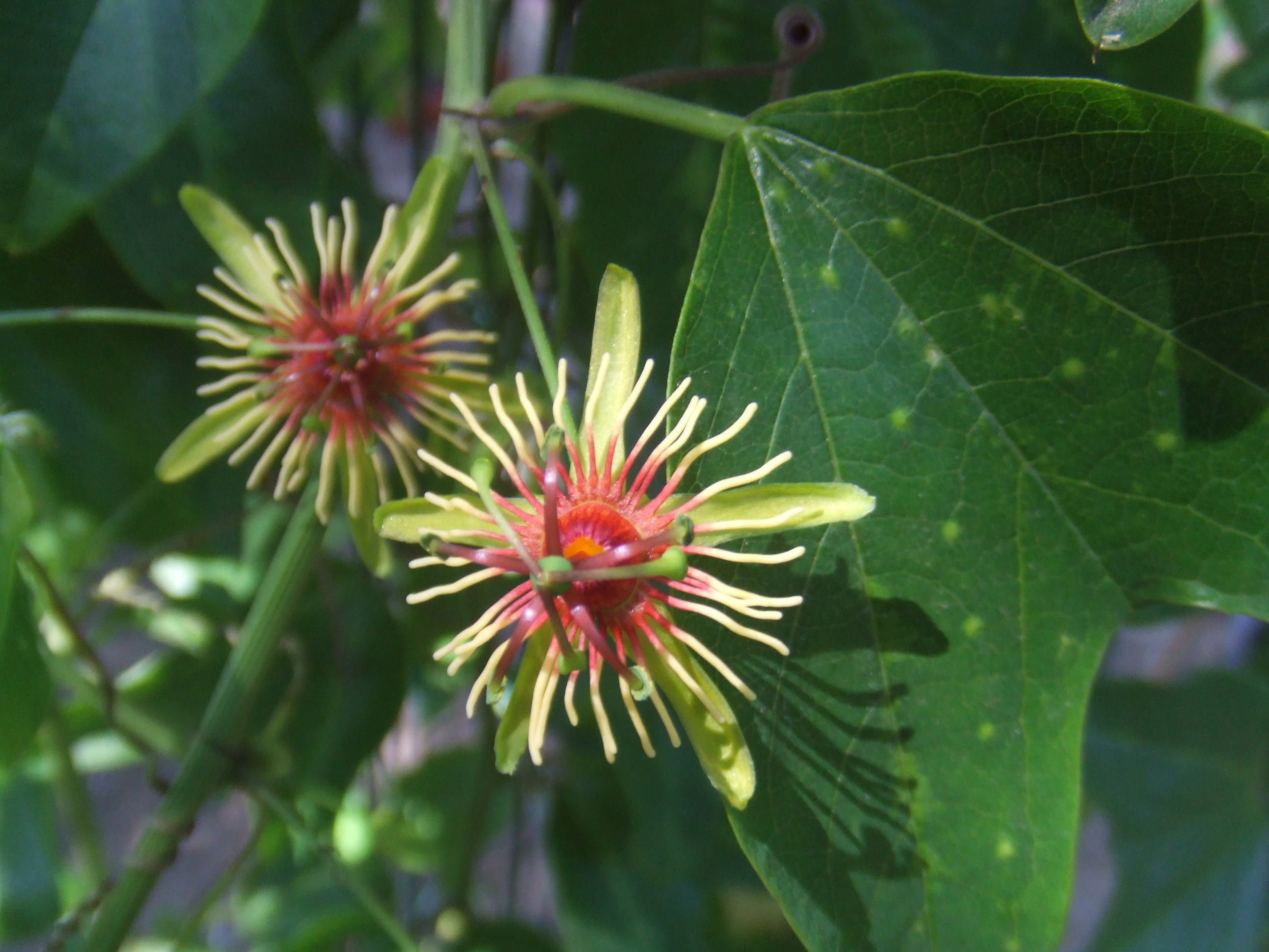 Passiflora jorullensis, picture taken at the Passiflorahoeve in Harskamp, The Netherlands